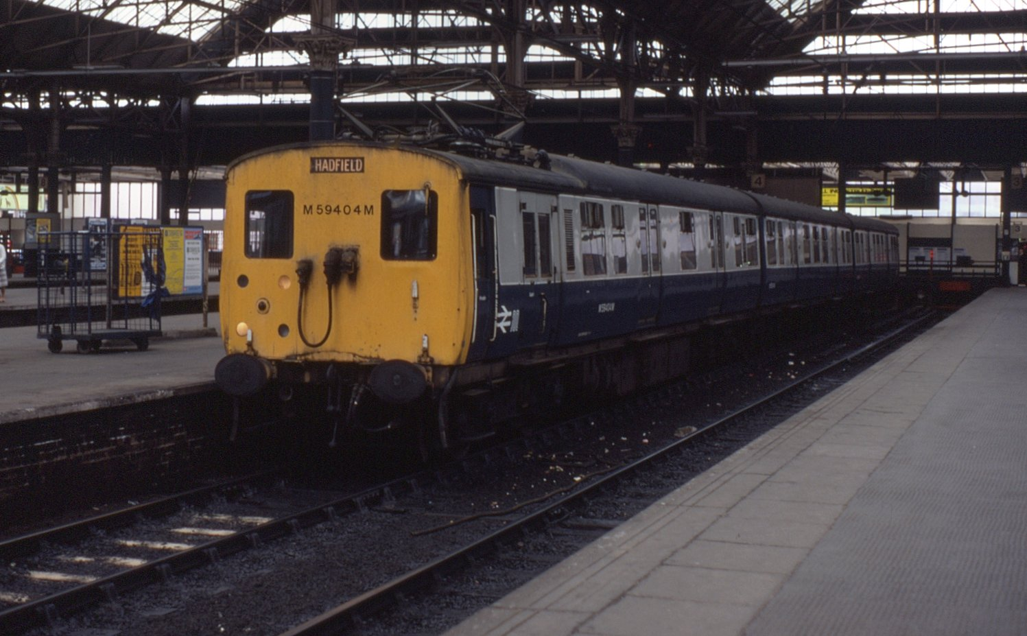 8 3-car sets built in 1950 were employed on local services between Manchester Piccadilly and Hadfield via Glossop. This, the Woodhead Line, was electrified at 1500V dc. Upon closure beyond Hadfield, the line was electrified at 25kV and as a result the units were withdrawn by December of 1984, a few months after this picture was taken. In the platform at Manchester Piccadilly on 17 July 1984 with car no. M59404 closest to the camera. These units were never to carry set numbers.